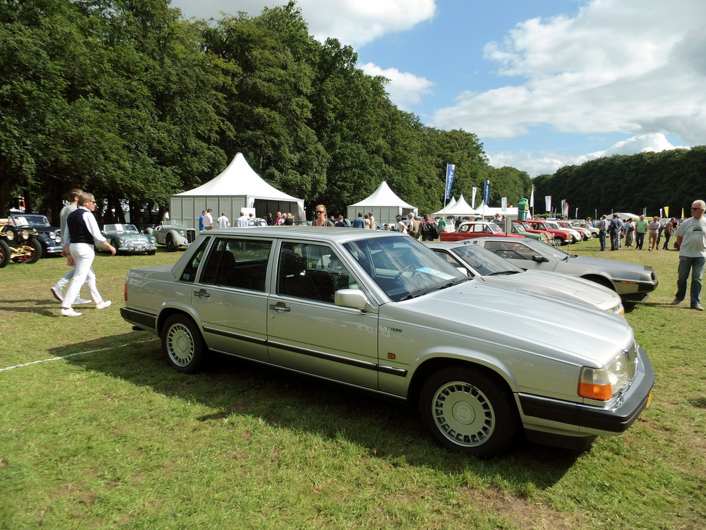 Volvo 760 GLE on display, Concours d'Elegance Paleis Het Loo 2014